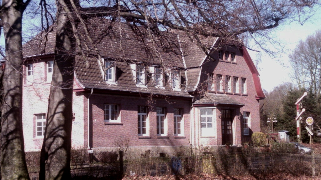 Former Railway-Station Building in Heimer, Viersen, Germany